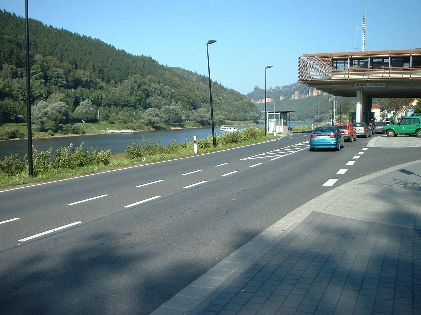 Elbe at the German-Czech border crossing